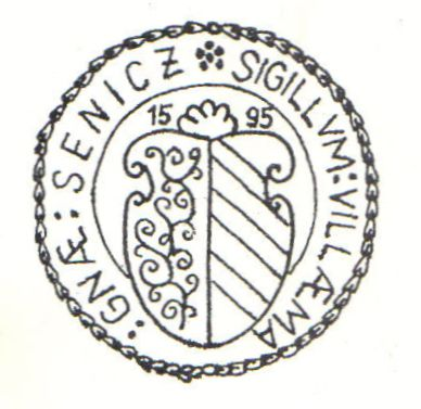 Historical seal of Senice na Hané municipality.